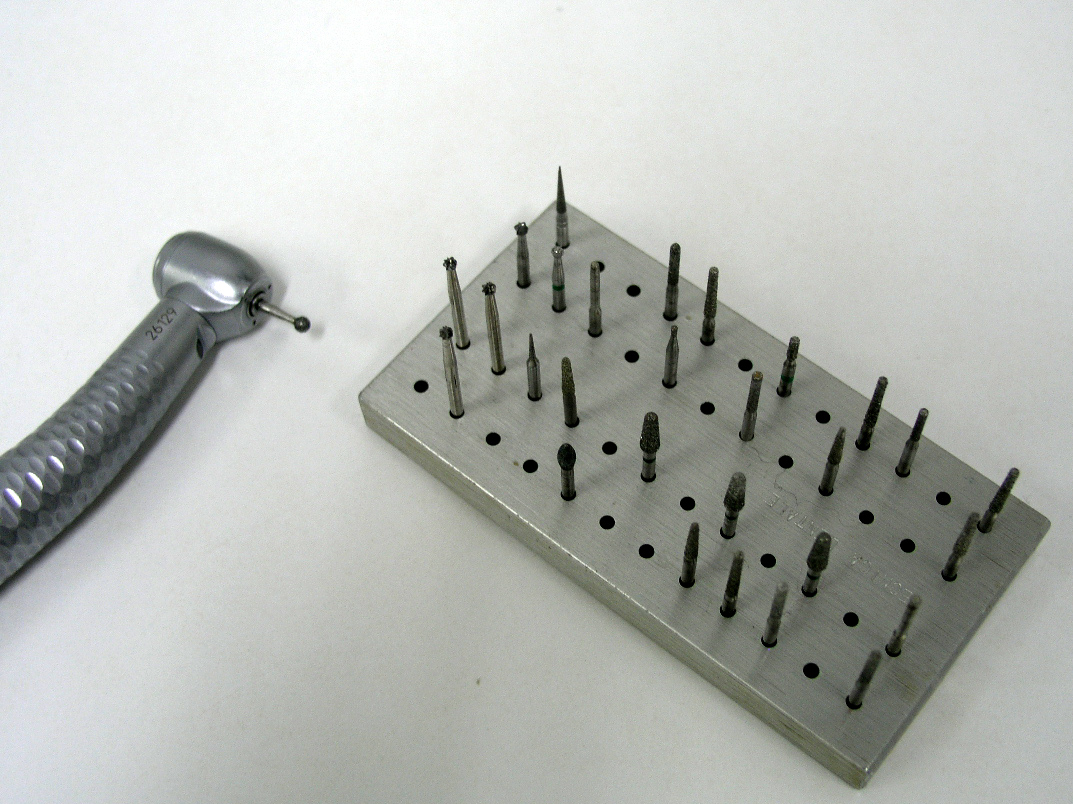 Burr-drill for dentistry. The photo was taken the 23rd December 2005 by Håkan Svensson (Xauxa).